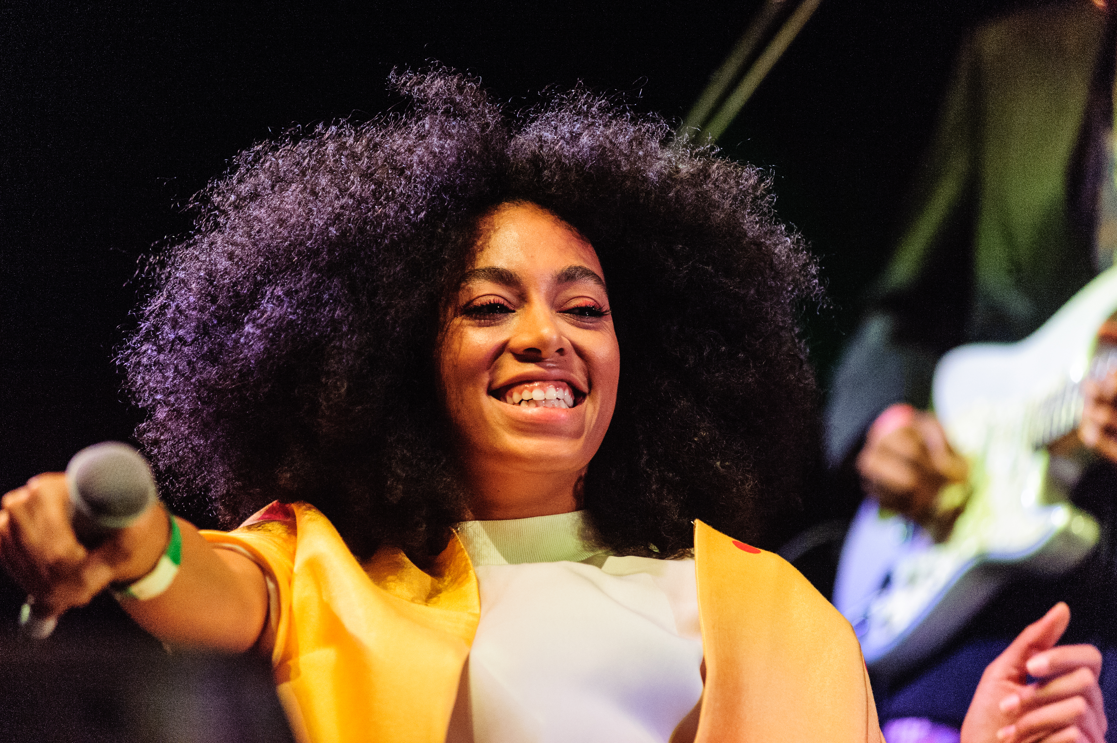 Solange performing at Coachella on April 19, 2014.